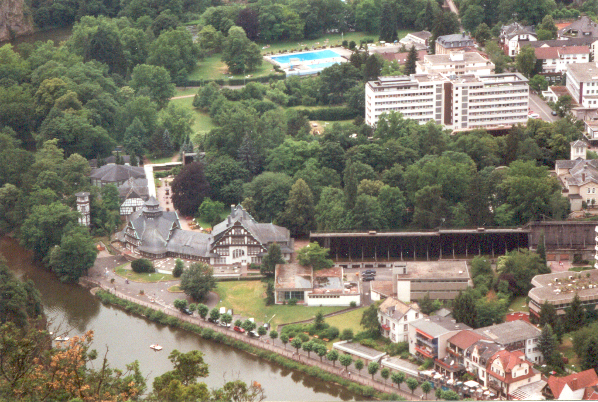 The Kurhaus of Bad Münster am Stein in Germany, photographed from the Rheingrafenfels